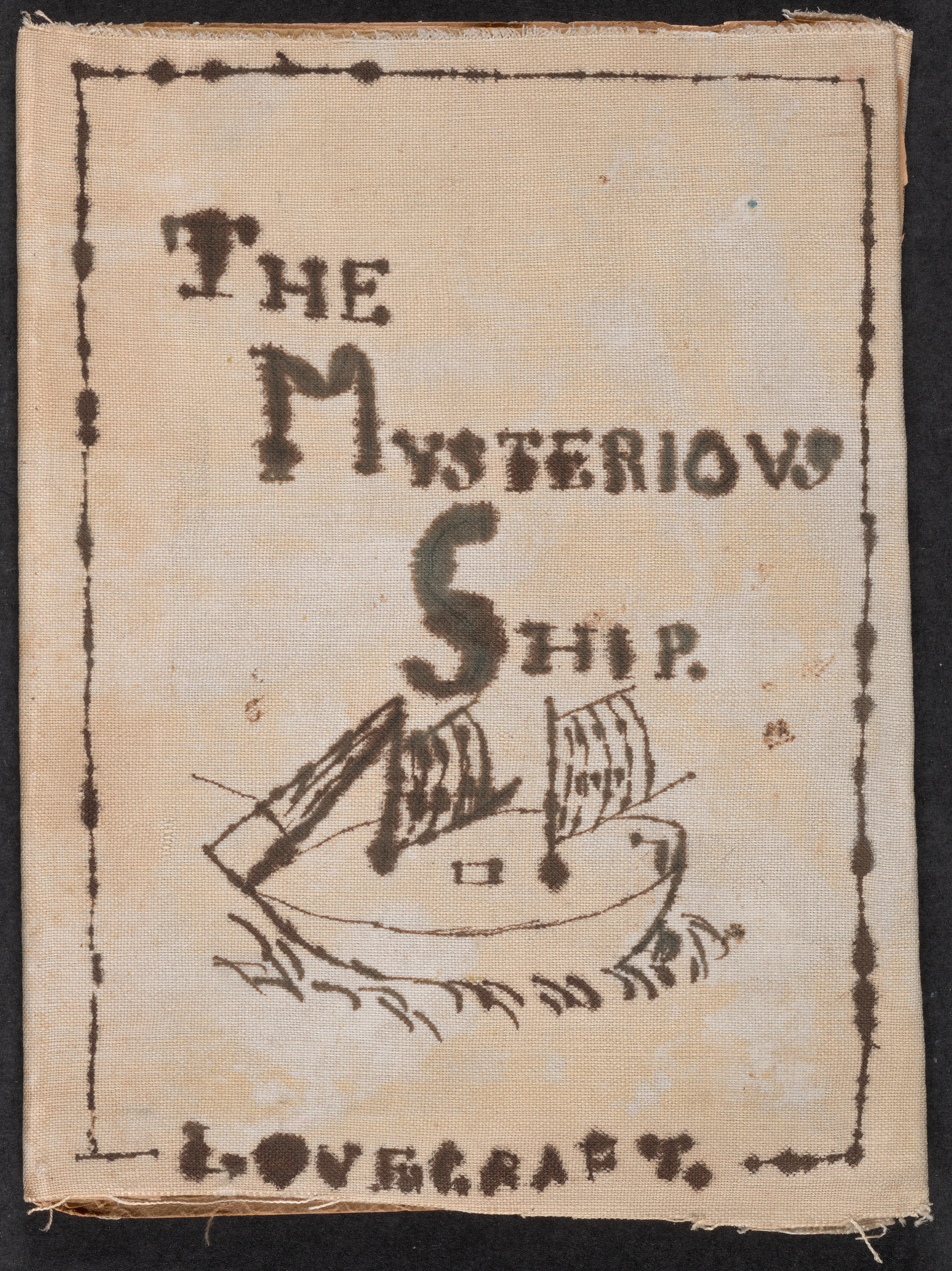 First page of the manuscript The Mysterious Ship.